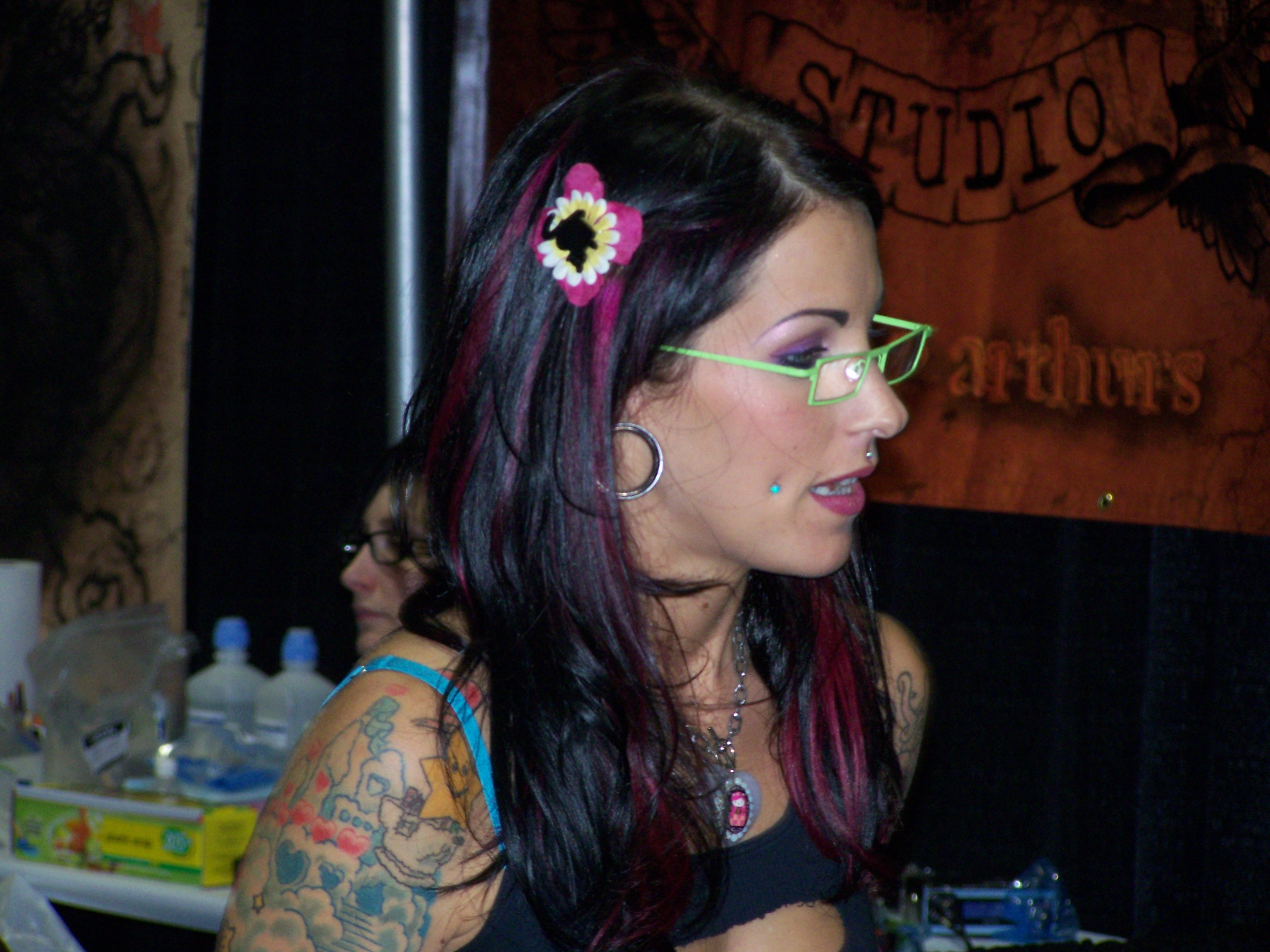 Pixie Acia, of LA Ink, at the 2007 Calgary Tattoo & Arts Festival held in the Calgary Roundup Centre, 1410 Olympic Way SE Calgary, Alberta, Canada.